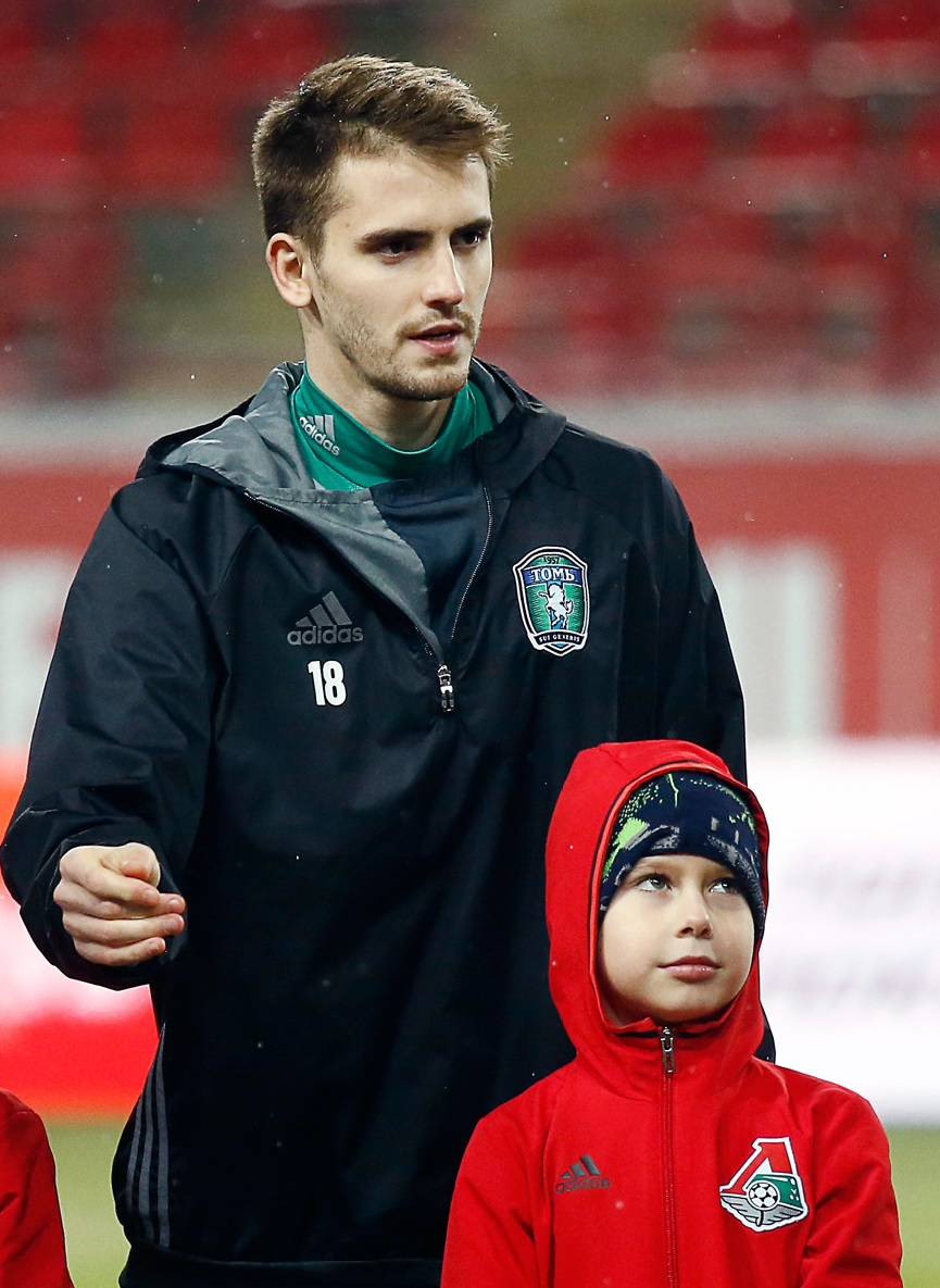 Artyom Popov with FC Tom Tomsk before the game against FC Lokomotiv Moscow.